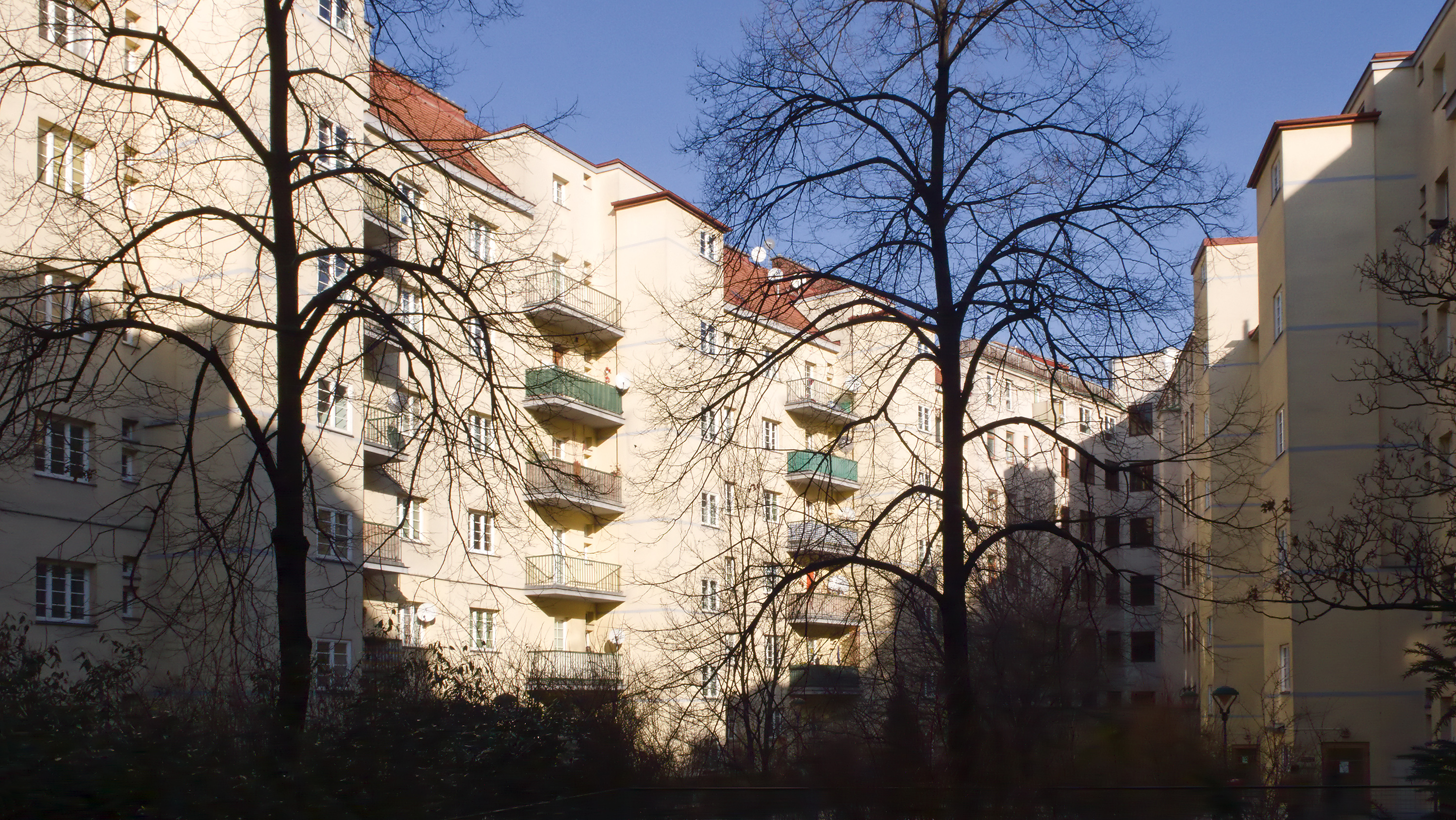 Ditteshof in Vienna Döbling